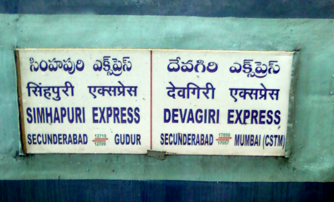 Simhapuri and Devgiri Express Nameboard, Secunderabad